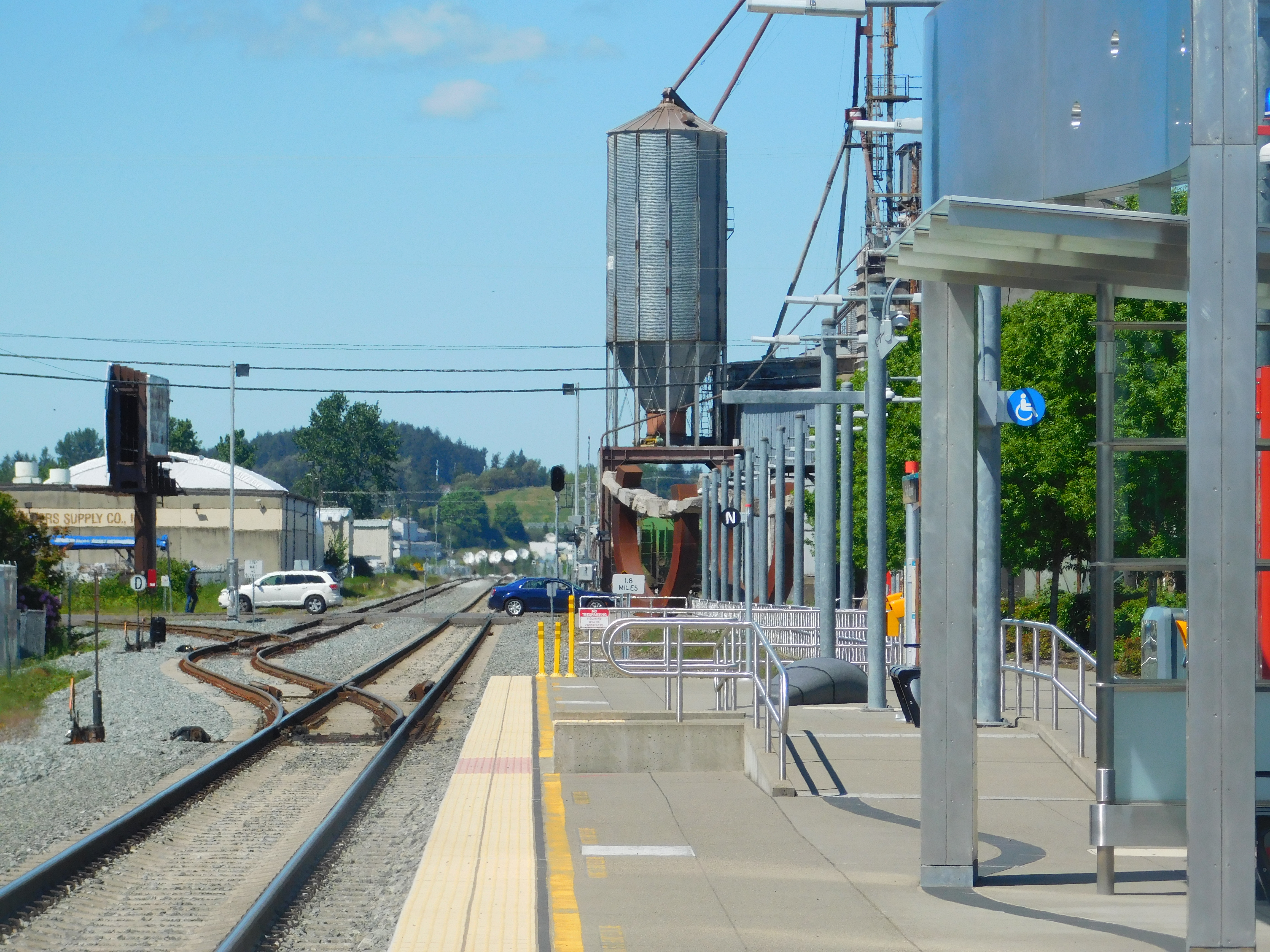 The single platform at South Tacoma station, a commuter rail station in Tacoma, Washington, US, served by Sounder commuter rail.